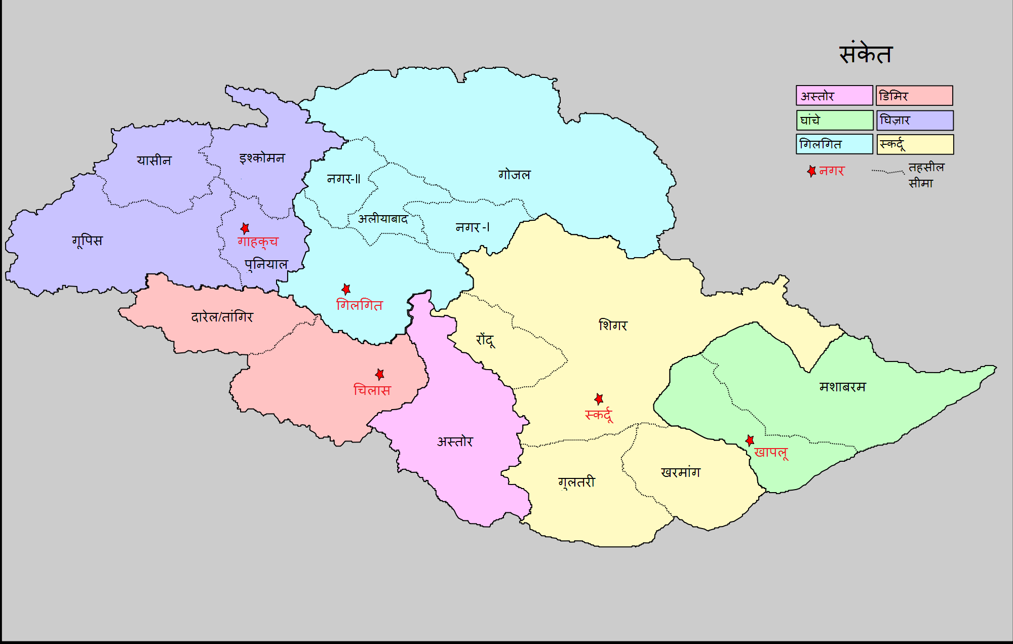 Gilgit-Baltistan earlier Northern Areas of Pakistan. Hindi.